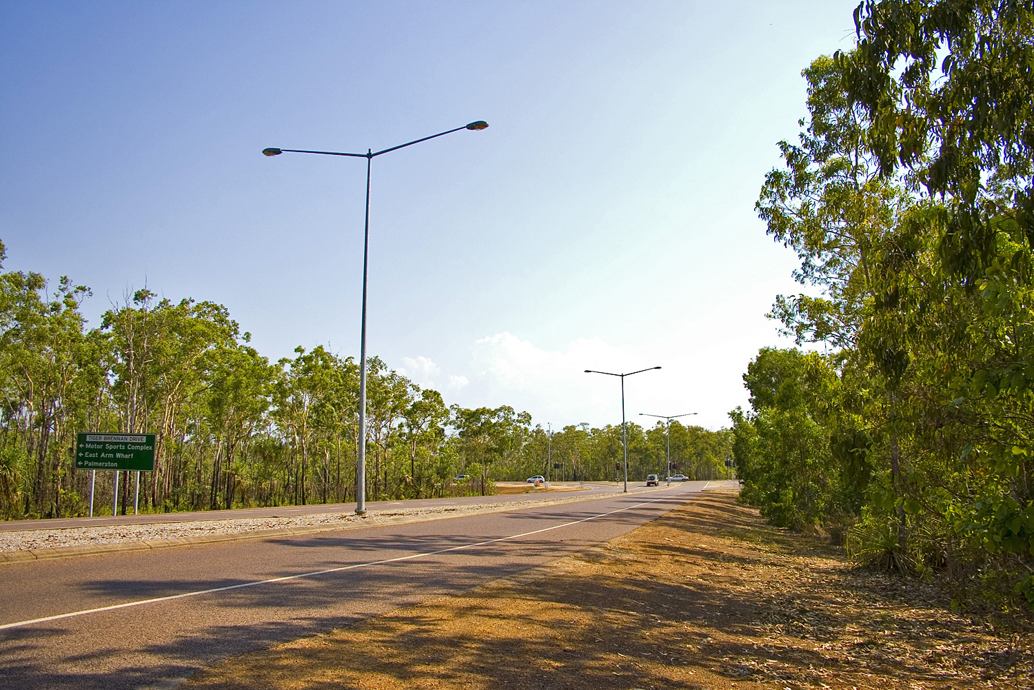 Amy Johnson Avenue, Darwin, Northern Territory.